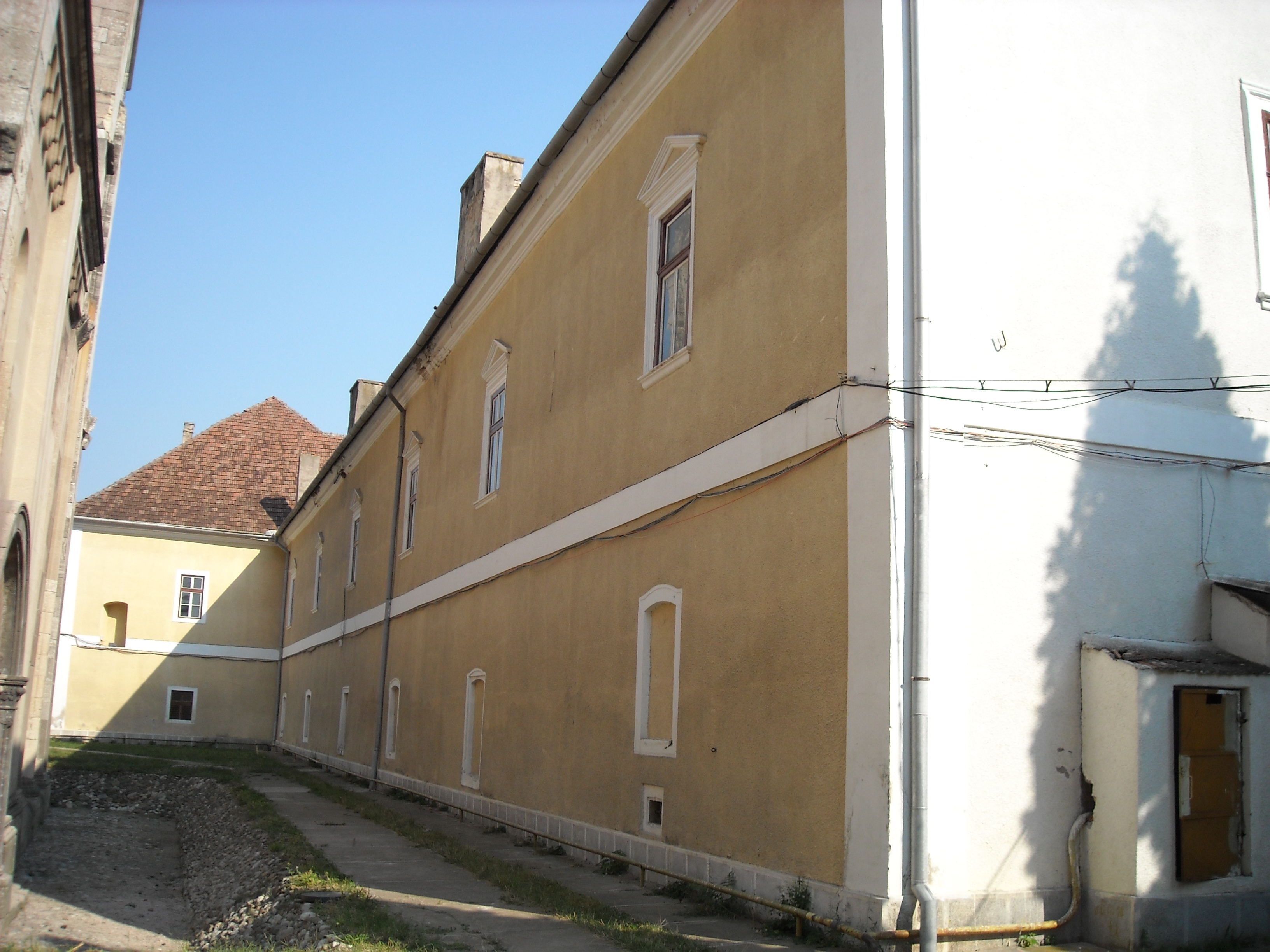 the prince's palace in the castle of Alba Iulia (Gyulafehérvár)